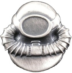 United States Department of the Navy Scuba Diver Badge